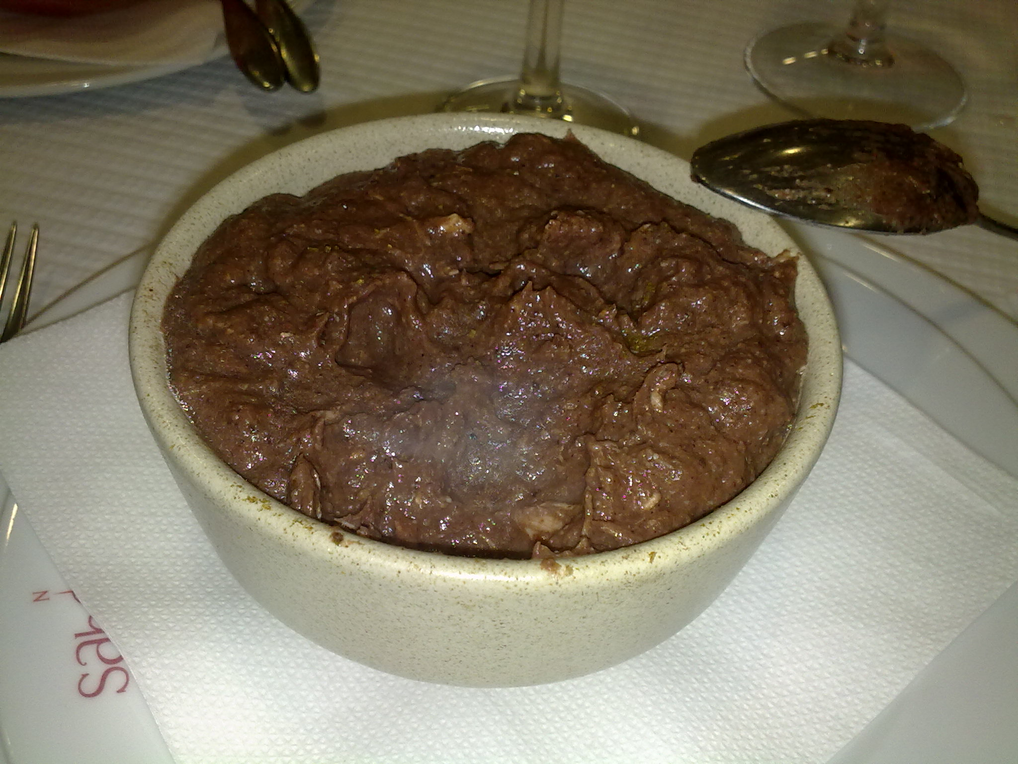 Papas de sarrabulho, a portuguese dish from northern Portugal.